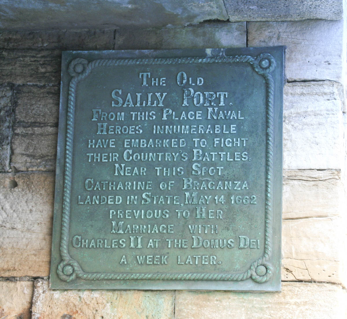 The Sally Port adjacent to the Square Tower on the Portsmouth Harbour fortifications. A Sally Port is an opening in the walls where mariners could enter and leave, and from where garrison soldiers could "sally forth" to engage an enemy outside the walls. This Sally Port is where the bride of King Charles II, Catherine of Braganza disembarked in England on 14 May 1662 for her wedding at Domus Dei nearby, more commonly known now as the Royal Garrison Church of Portsmouth. Image uploaded by me User:George.Hutchinson from a photograph taken by and supplied by Brian Burnell. Wikipedia editors are reminded that the copyright remains with the photographer, and that the terms of the Creative Commons licence; that allow editors to reuse this image apply to Wikipedia editors also, as they do to other re-users of this image. Breaches of the licence terms are not only unlawful, but are also antisocial, in that breaches discourage photographers from making their images freely available to everyone without payment. Wikipedia re-users are also reminded of the license terms that derivatives of this image should not imply that the adaptation is endorsed or approved by the author or copyright holder. Neither should derivatives be presented as the creation of the author or copyright holder, while clearly stating that the adaptation is a derivative of the original. Attribution online should be in this format Brian Burnell. On the printed page, a simpler form is acceptable - example: "Image: Brian Burnell". Non-Wikipedia users are requested to advise Brian Burnell of its use other than on Wikipedia.